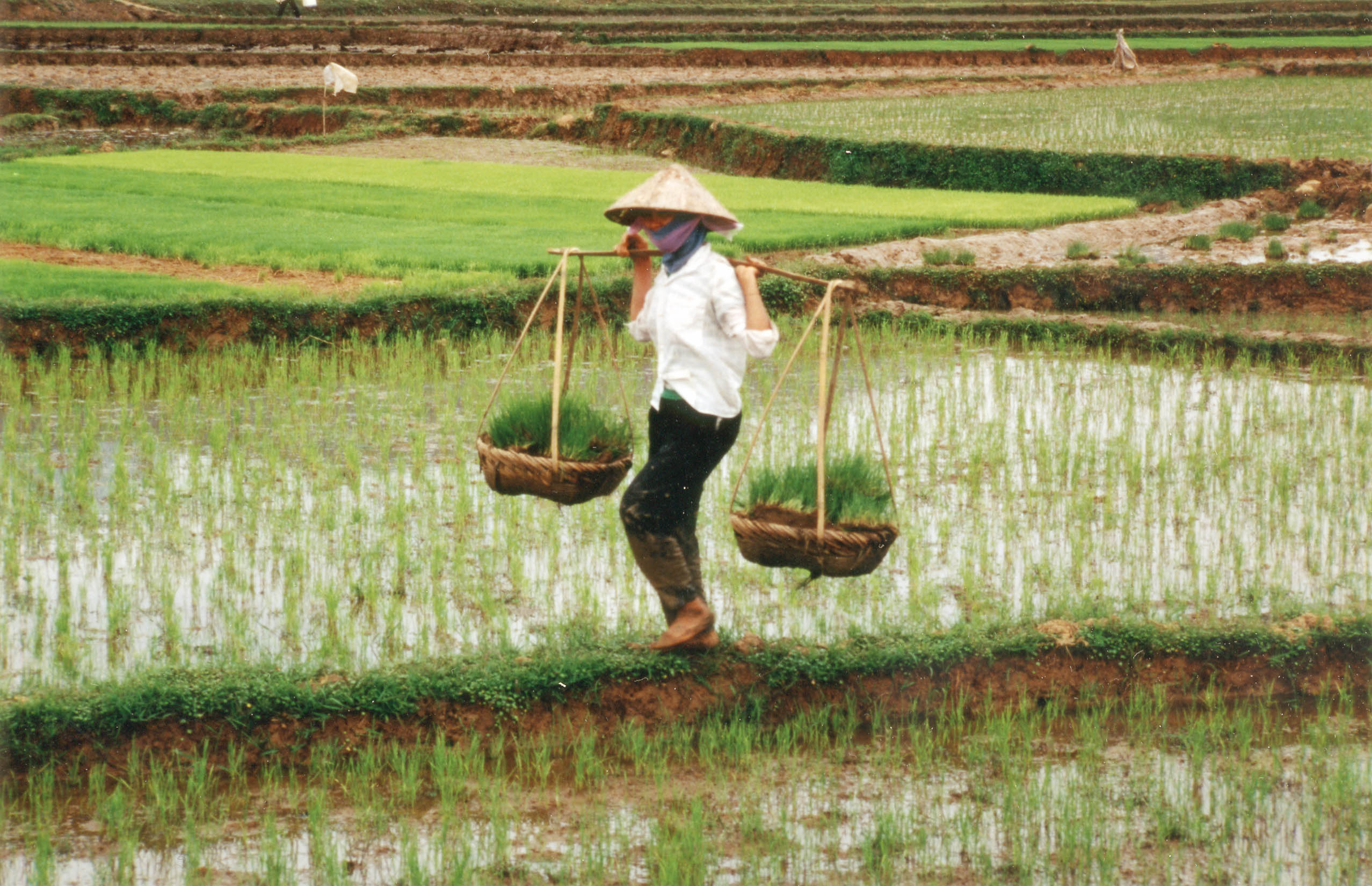 Vietnam: IFPRI Researches to Meet World's Food Needs.